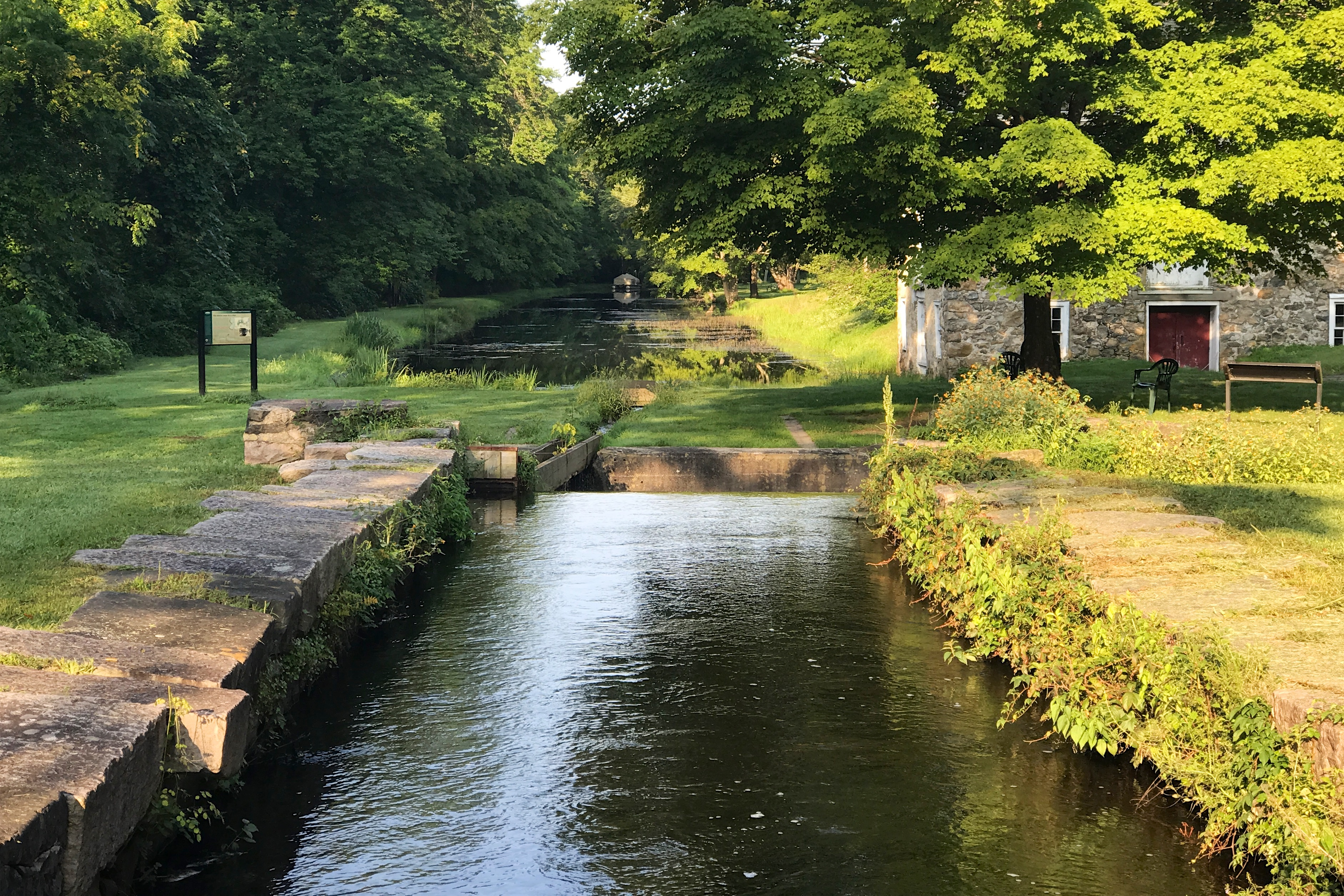 View of Lock 3 West of the Morris Canal at Waterloo Village, New Jersey.